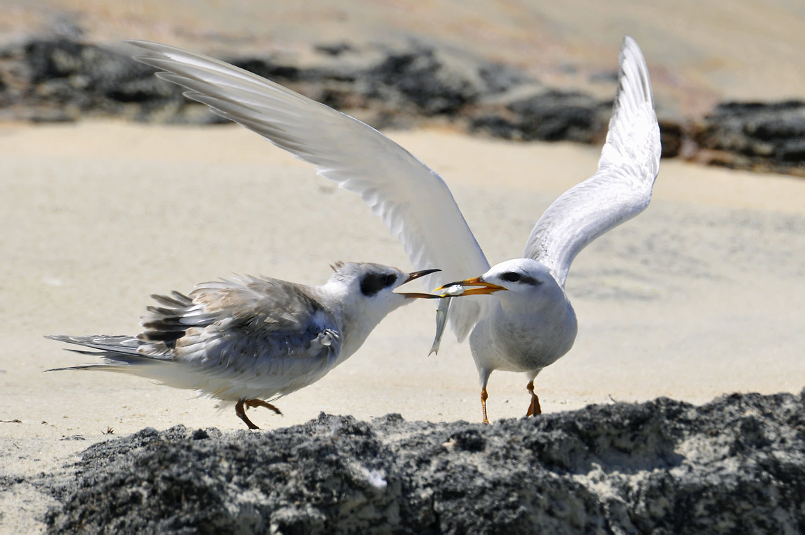 An adult Snowy-crowned Tern feeding a juvenile in Bojuru, Rio Grande do Sul, Brazil.